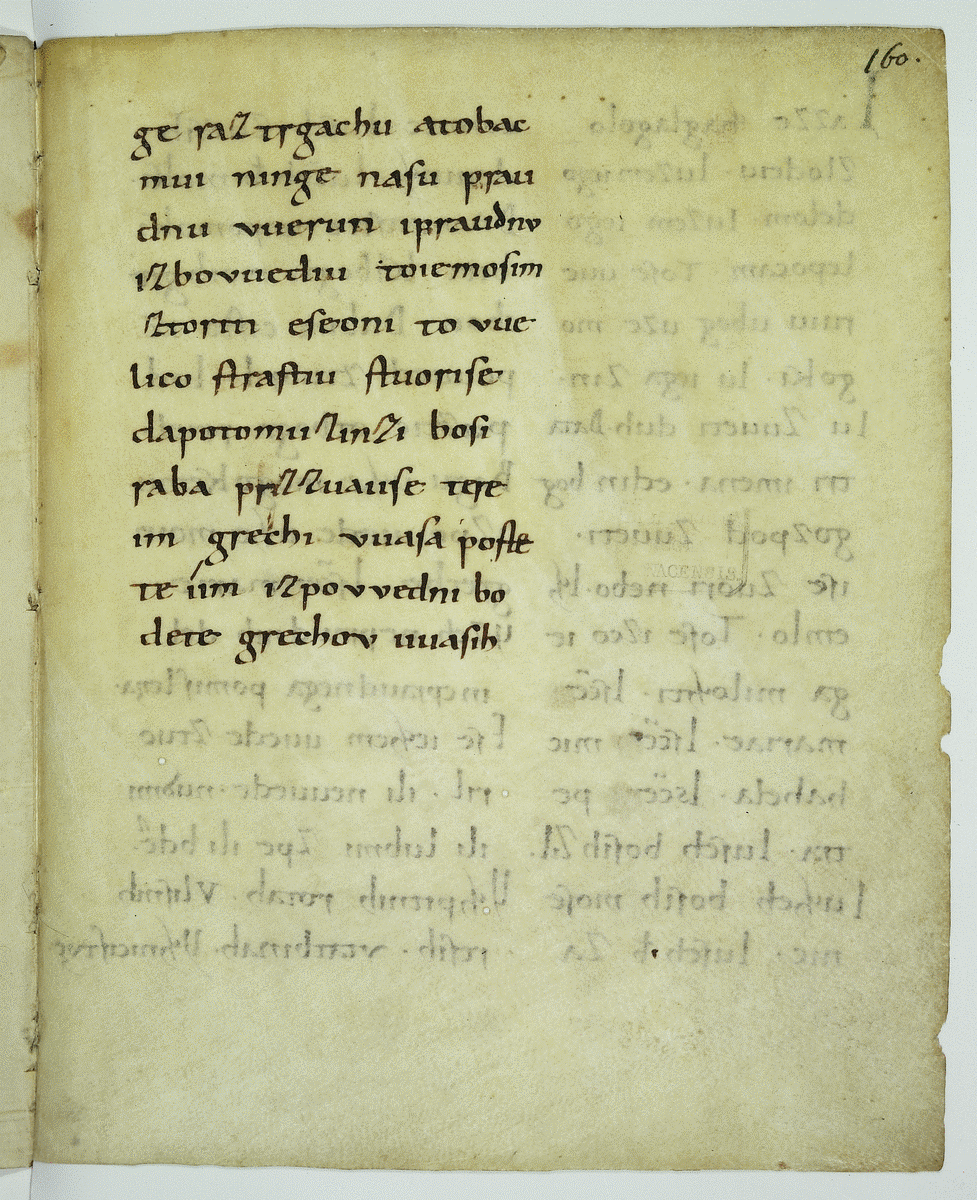 Facsimile of Freising Manuscripts, page 6.